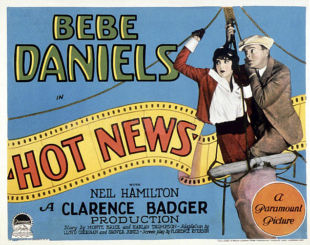 Lobby card for the American comedy film Hot News (1928). There are no copyright marks on the item. At bottom is Country of origin USA, and This lobby display leased from Paramount Famous Players Lasky Corporation.